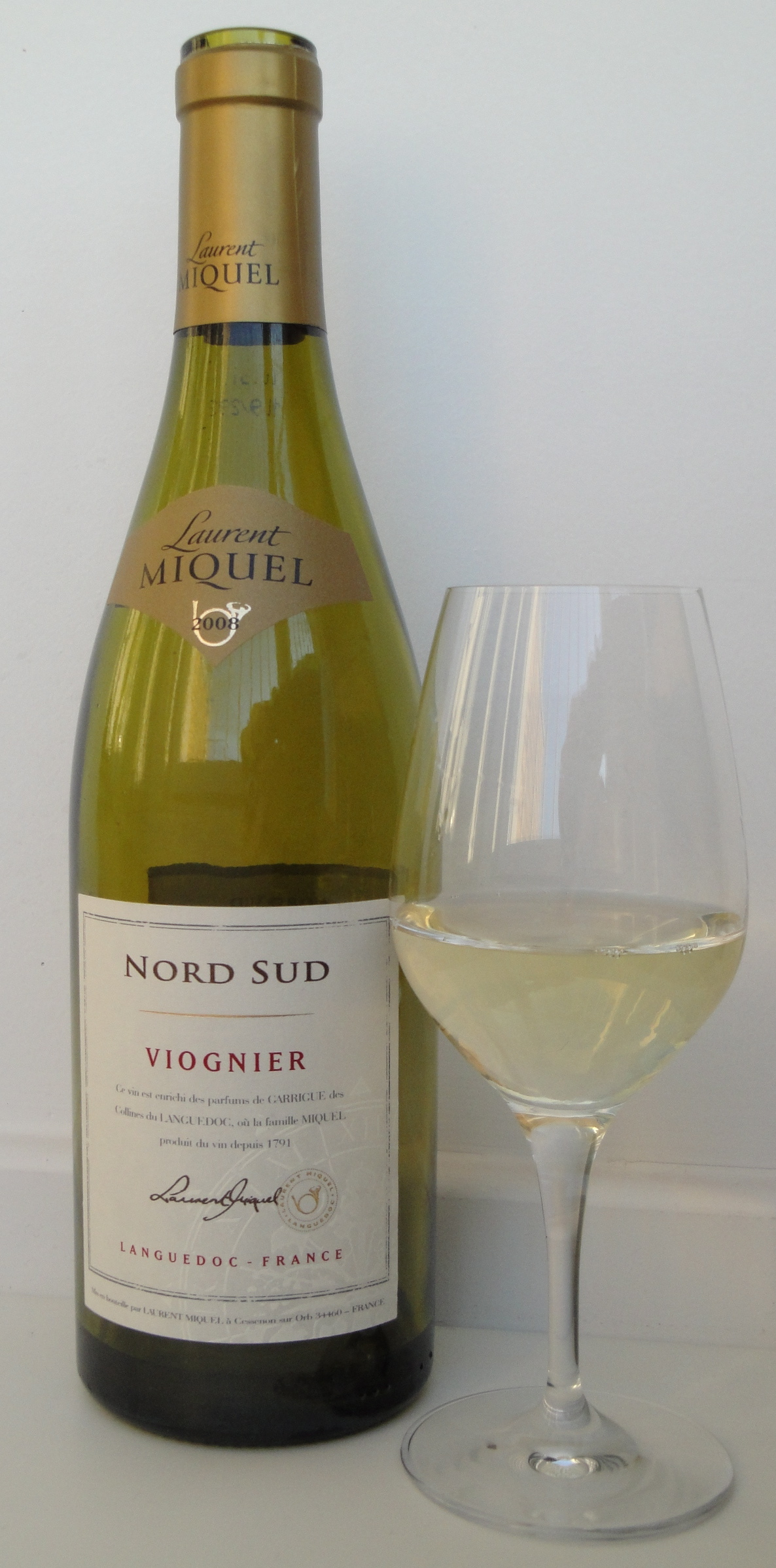 Nord Sud Viognier 2008, a wine from Languedoc (Vin de Pays d'Oc) produced by Laurent Miquel